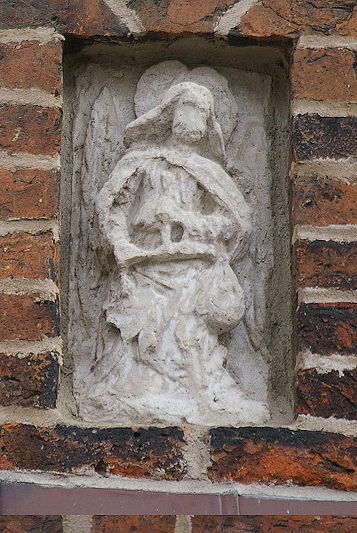 Sculpture St. Michel St. Peter church Malmo Sweden about 1460